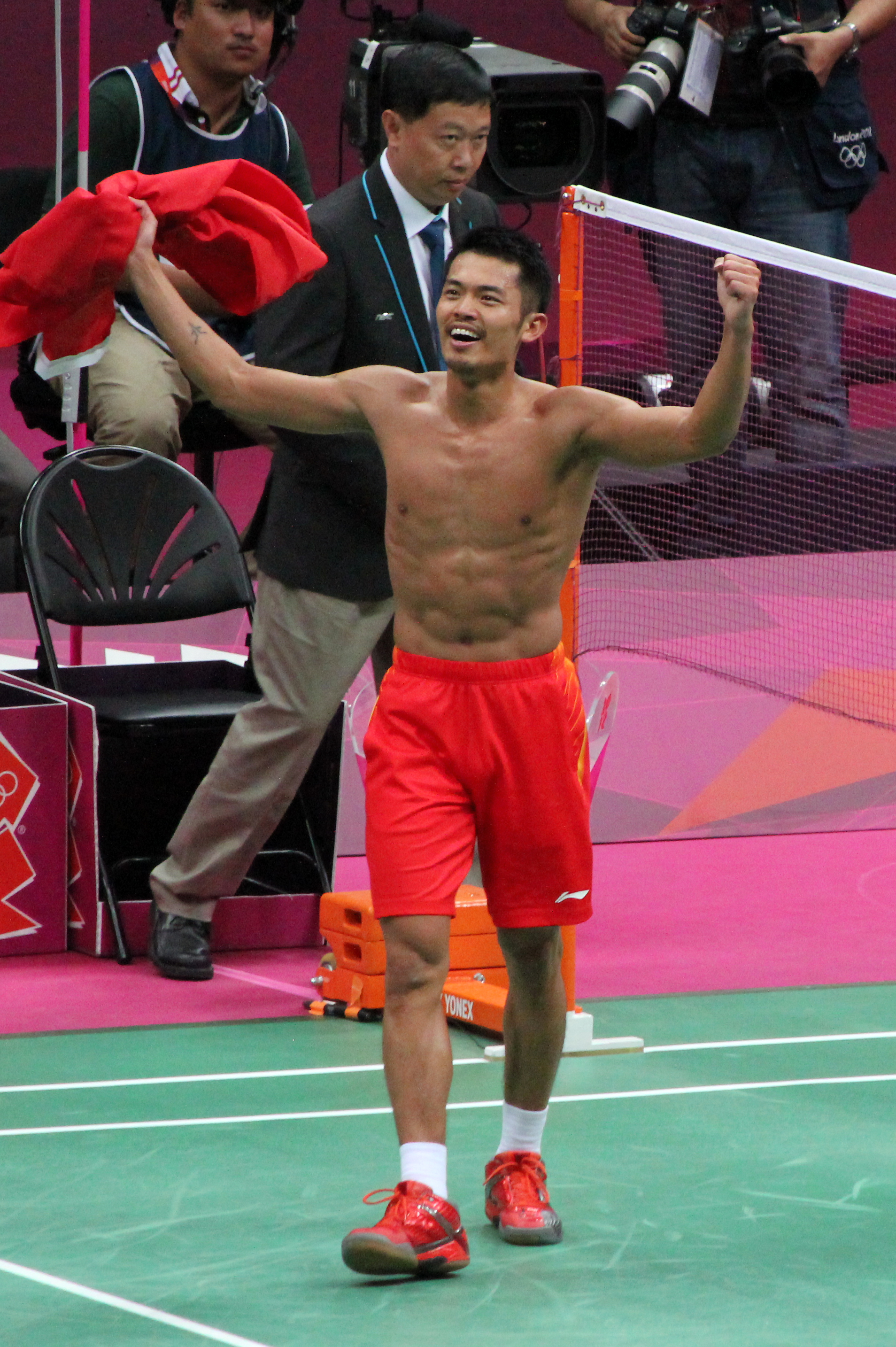 Mens badminton singles final between Lin Dan (China) and Lee Chong Wei (Malaysia) at the Wembley Arena, London 2012 Olympics